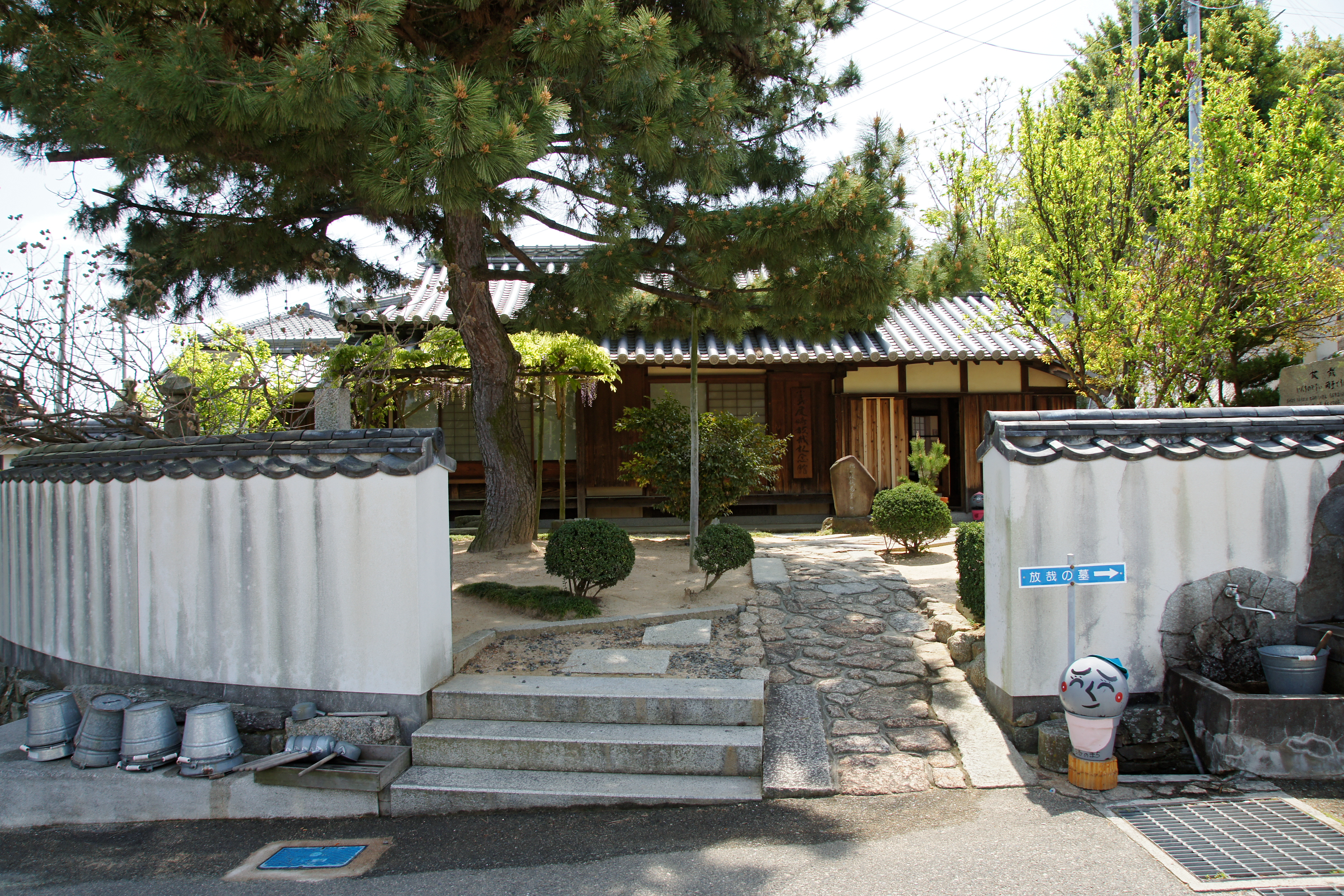 Shodoshima Hosai Ozaki Memorial Museum in Shodo Island, Tonosho, Kagawa Prefecture, Japan